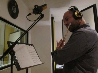 Marco Di Meco during Lucilla recording session.